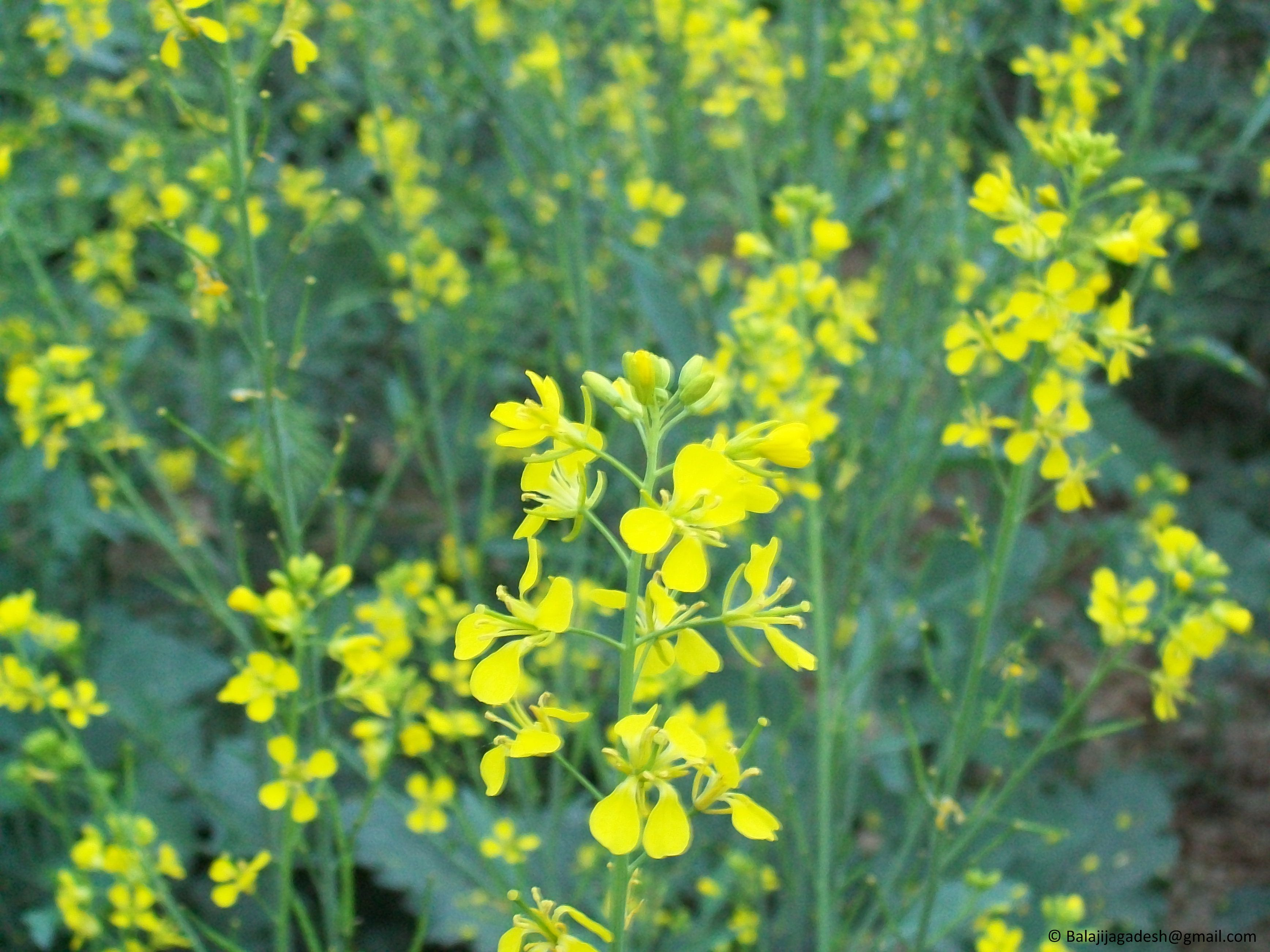 mustard flowers in yellow color